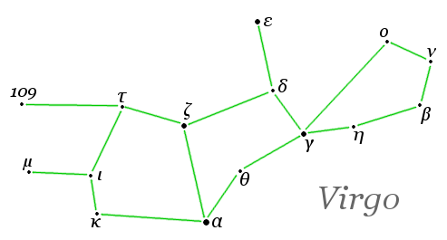 Diagram of H.A. Rey's alternative way to connect the stars of the constellation Virgo.